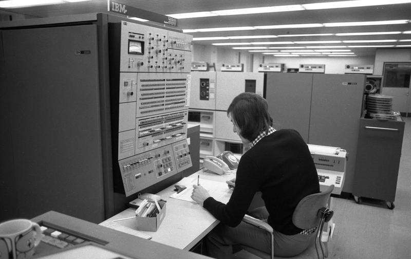 VW-Werk, Wolfsburg Information added by Wikimedia users.